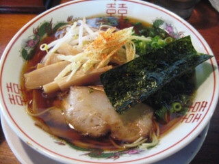 餃子屋七星の姫路ラーメン Himeji-Ramen